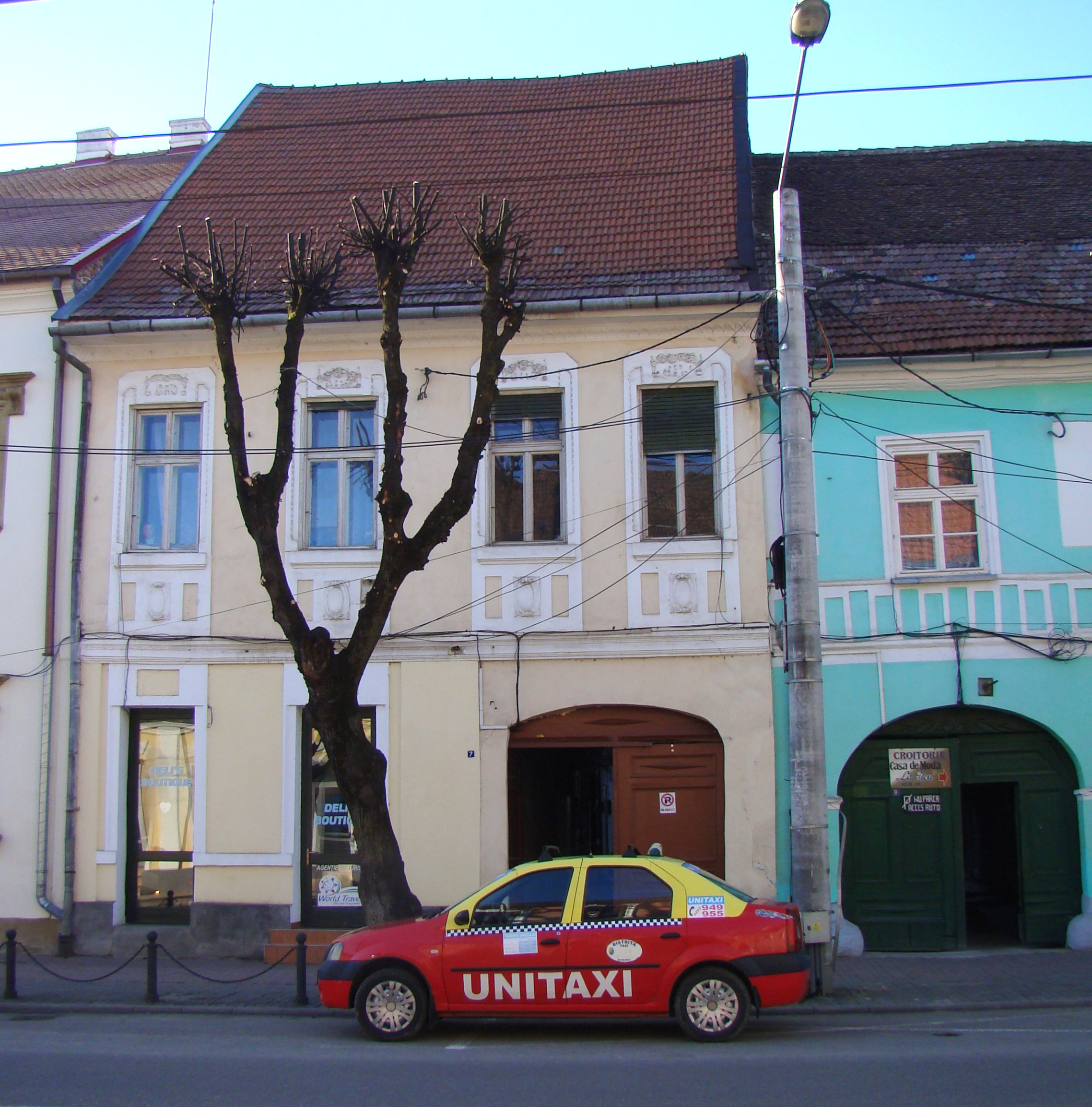 House, historic monument, in Bistriţa, Dornei street, number 7